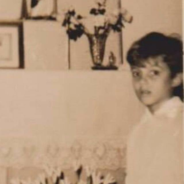 Zé Luis during Childhood